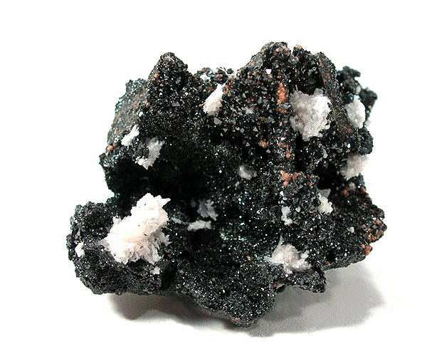 Jacobsite Locality: N'Chwaning II Mine, N'Chwaning Mines, Kuruman, Kalahari manganese fields, Northern Cape Province, South Africa (Locality at ) Size: miniature, 3.8 x 3.5 x 3.2 cm Jacobsite This specimen is the largest and richest jacobsite I have ever had to offer, far more rich than anything that I had back 5 years or so when i handled much of the Von Bezing collection or more recently part of the Charlie Key kalahari collection. It is almost completely covered in jet-black, lustrous, SHARP octohedral jacobsites, and glitters with black sparkle. A pretty black rock, eh? 3.8 x 3.5 x 3.2 cm